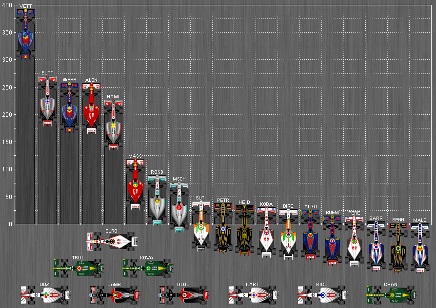 chart of final standings of 2011 Formula One season